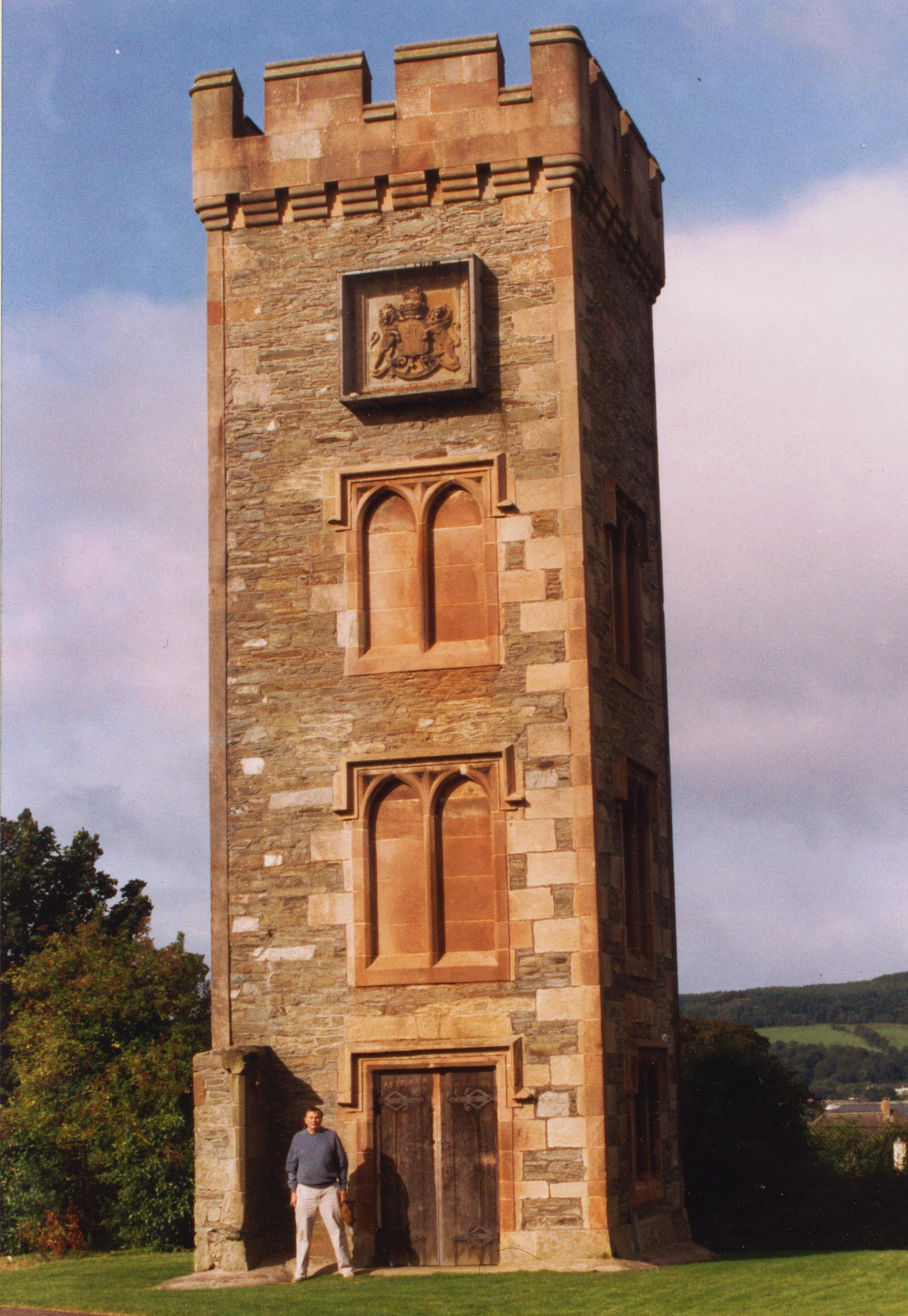 Ardencaple Castle Light Tower in 1980. Standing at the base is Robie Macauley.